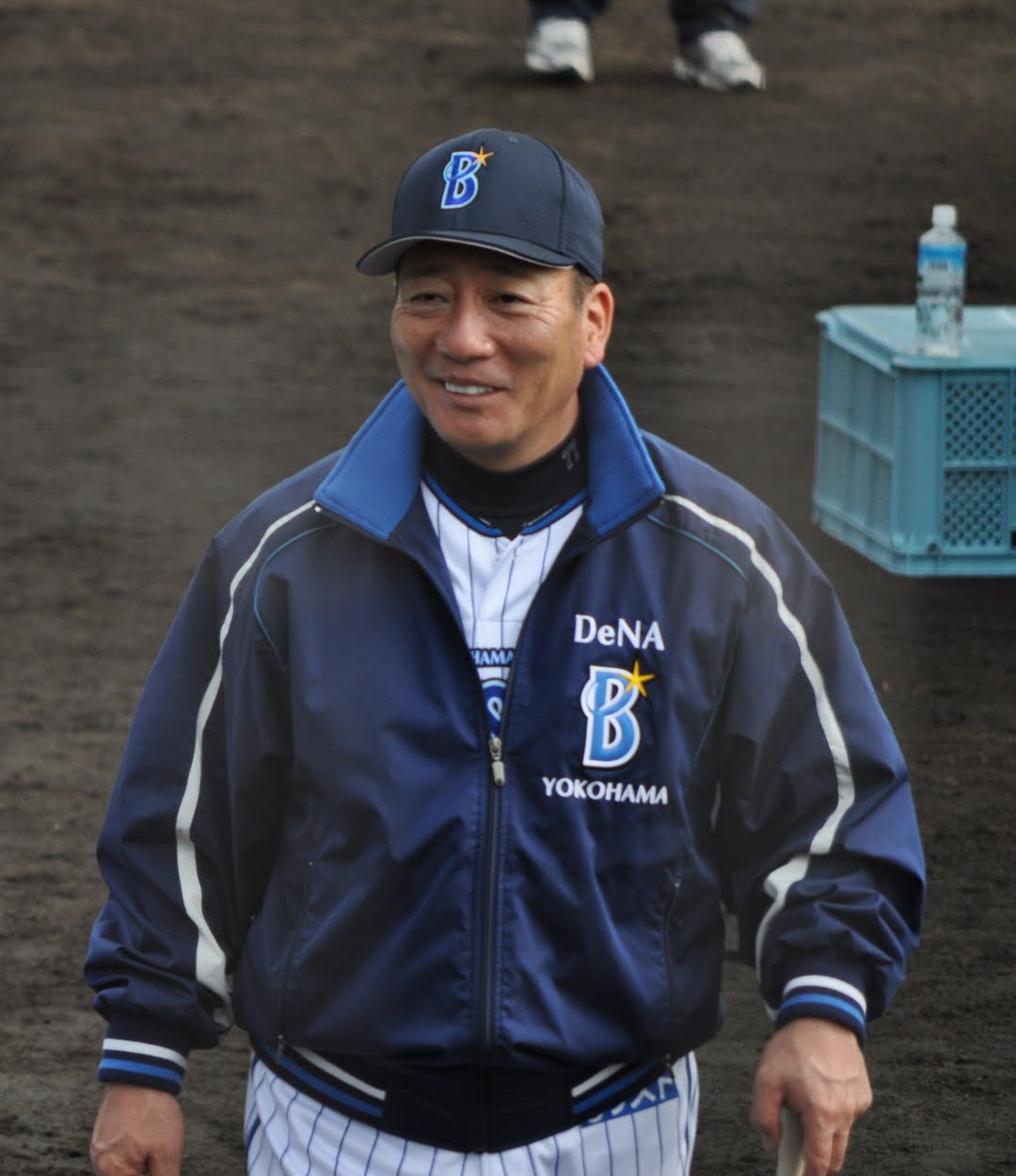 Yutaka Takagi, coach of the Yokohama DeNA BayStars, at Ginowan Municipal Baseball Stadium.